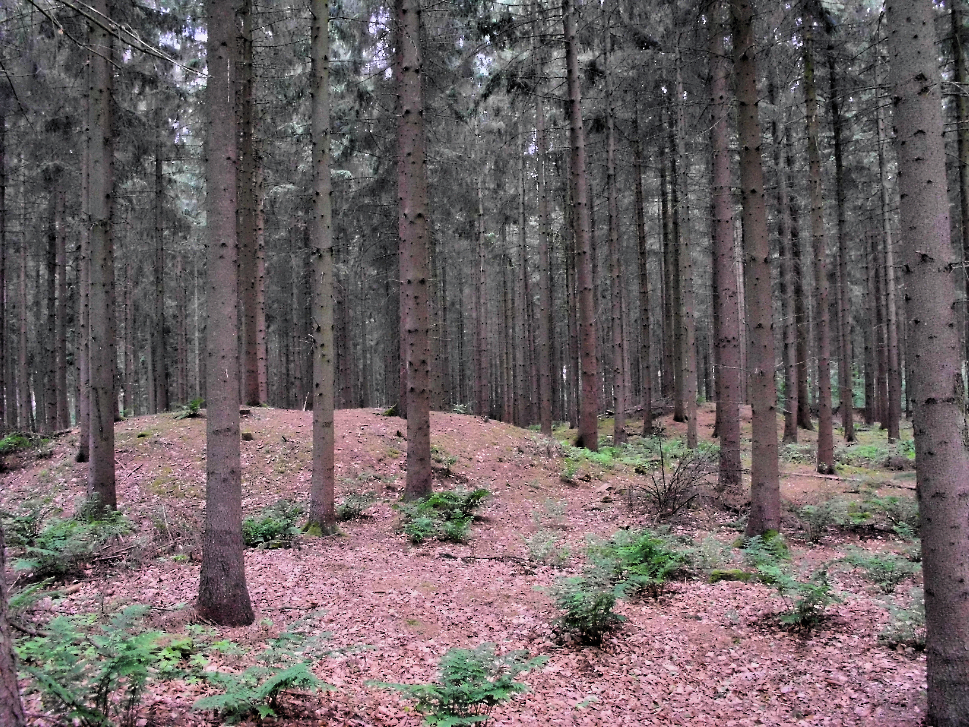 Tumulus field in a forest near Goldenstedt